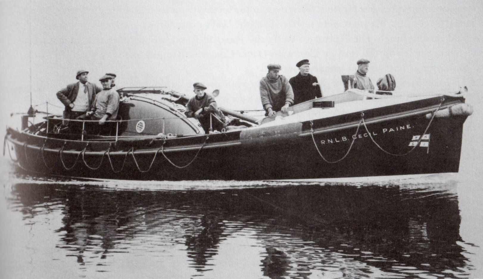 Postcard of the Wells-next-the-Sea Lifeboat Cecil Paine, scanned and cropped image from personnel postcard collection. there is no Copyright attributions.